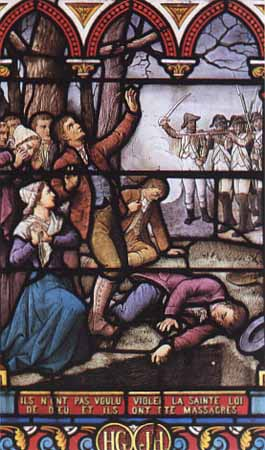 Stained glass window in the Saint-Louis-du-Champ-des-Martyrs chappel of Avrillé, showing a scene of the massacre of the population of Avrillé by the french republican soldiers between January 14 and February 10 , 1794.